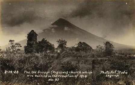 1928 photo of the Cagsawa ruins with parts of the facade still intact. The Mayon volcano is seen in the background.